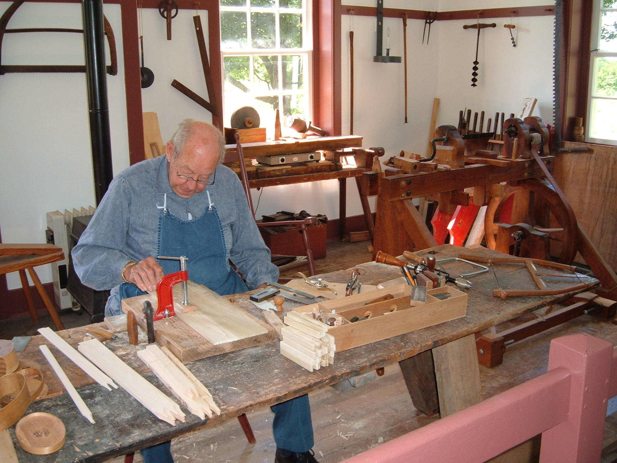 Photograph taken at Shaker Village at Pleasant Hill, Kentucky, USA, of a craftsman making boxes in the manner of the 19th century Shakers who once lived on the site (the man is not an actual Shaker, however)